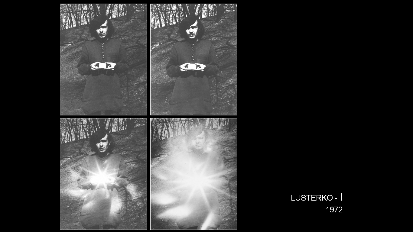 This file is a reproduction of a work created by Romuald Kutera.